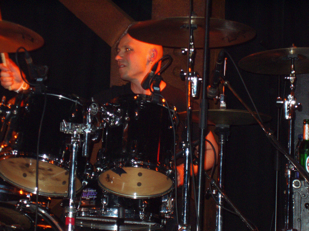 Ed playing at "The Waterfront", Rotterdam, The Netherlands.